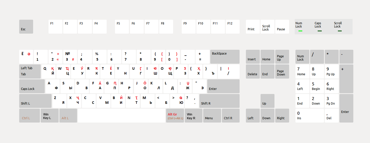 Abkhazian keyboard